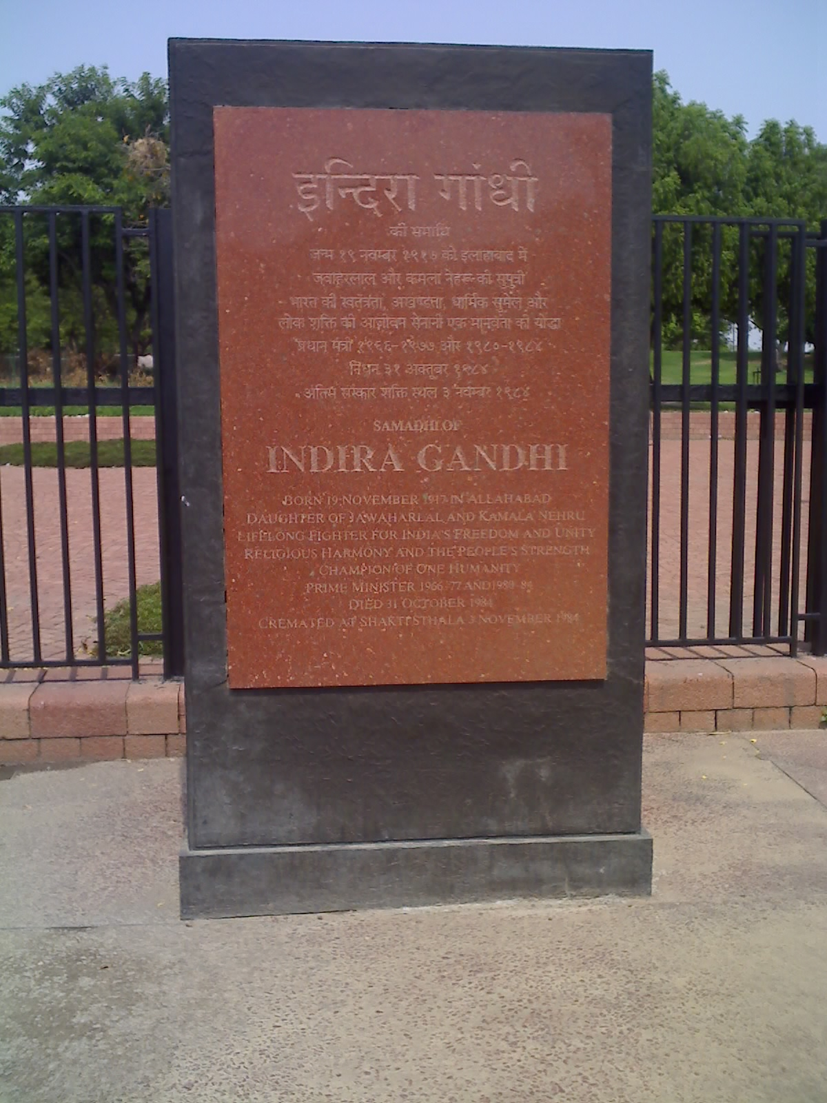 Burial memorial of Indian leaders, Shakti sthala , Delhi